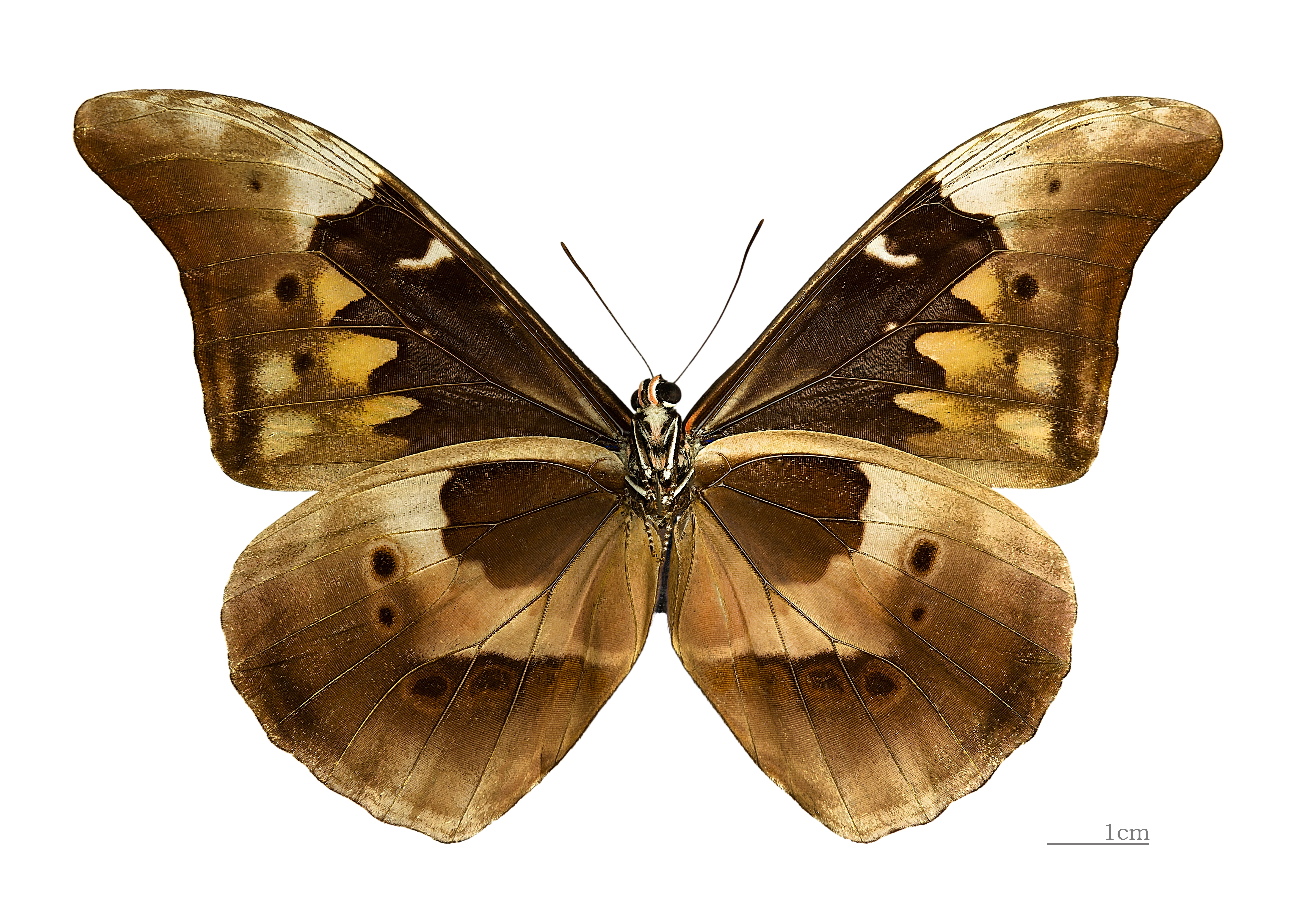 Rhetenor Blue Morpho - △ Ventral side